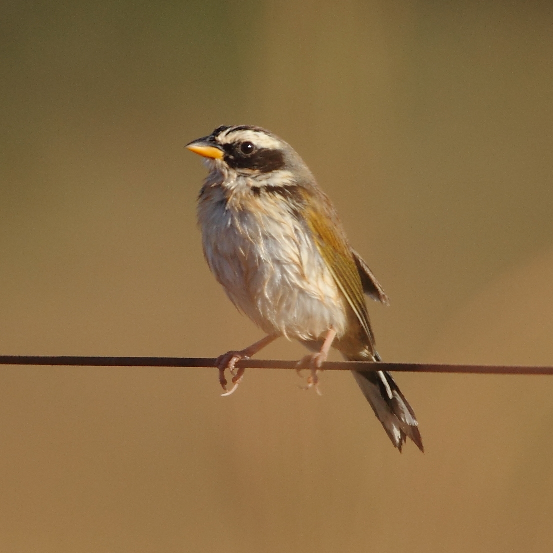 Black-masked Finch at Chapada dos Veadeiros - GO - Brazil